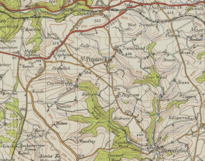 Historical map showing the area around St Pinnock in the 20th century